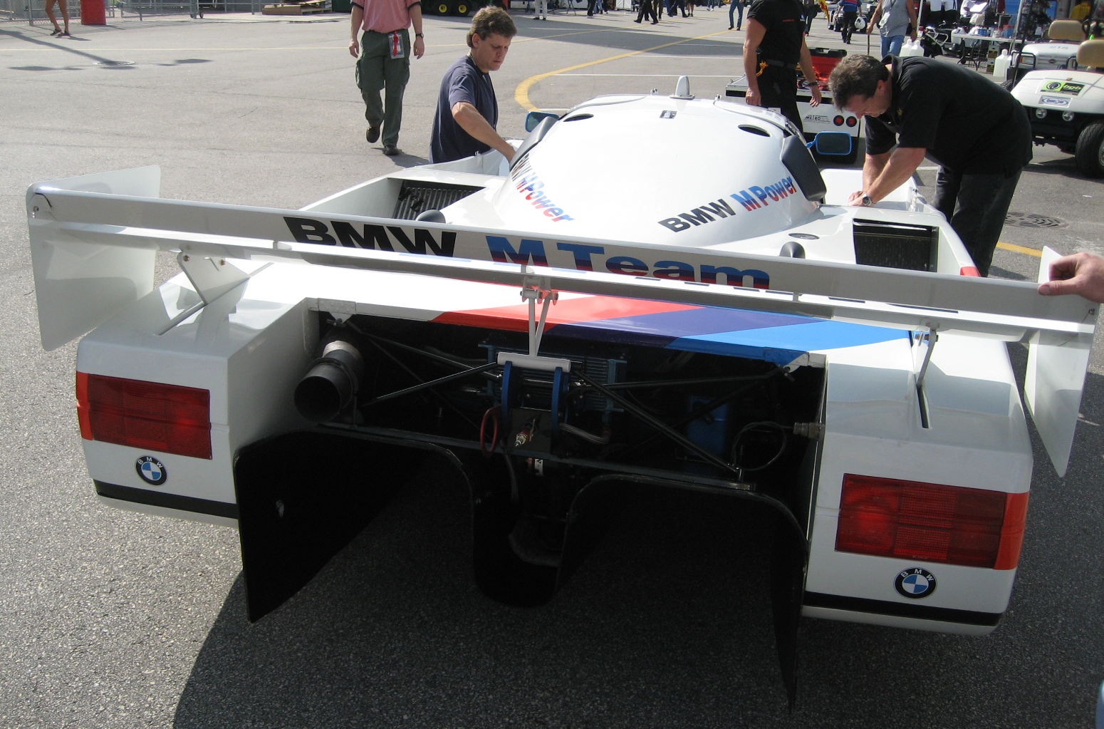 A BMW GTP (built by March Engineering)